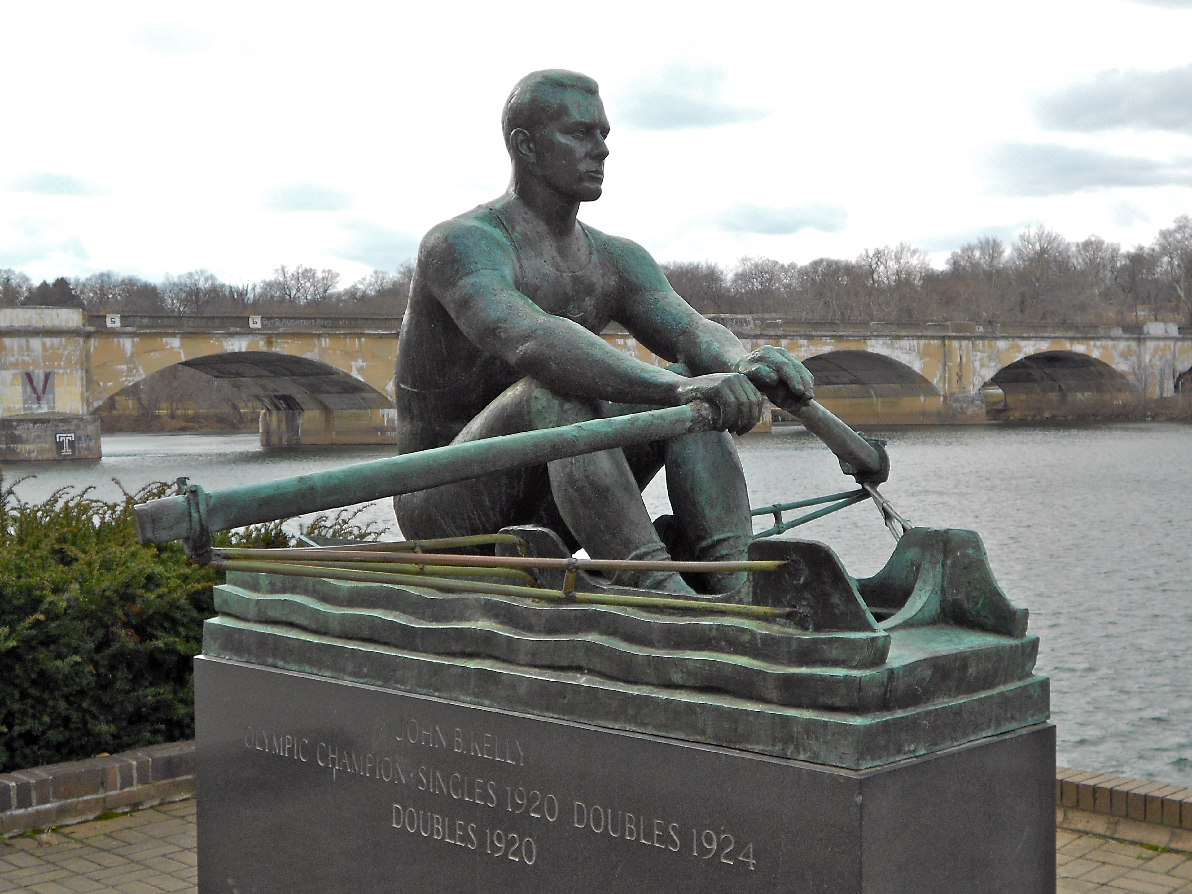 Sculpture of John B. Kelly, on Kelly Drive in Philadelphia. Sculpture 1965 by Harry Rosin (1897-1973), no visible copyright notice. John B. Kelly was a 3 time Olympic gold medalist in rowing, successful Philadelphia brick layer and brick yard owner, and father of Grace Kelly, movie actress, aka Princess Grace of Monaco.